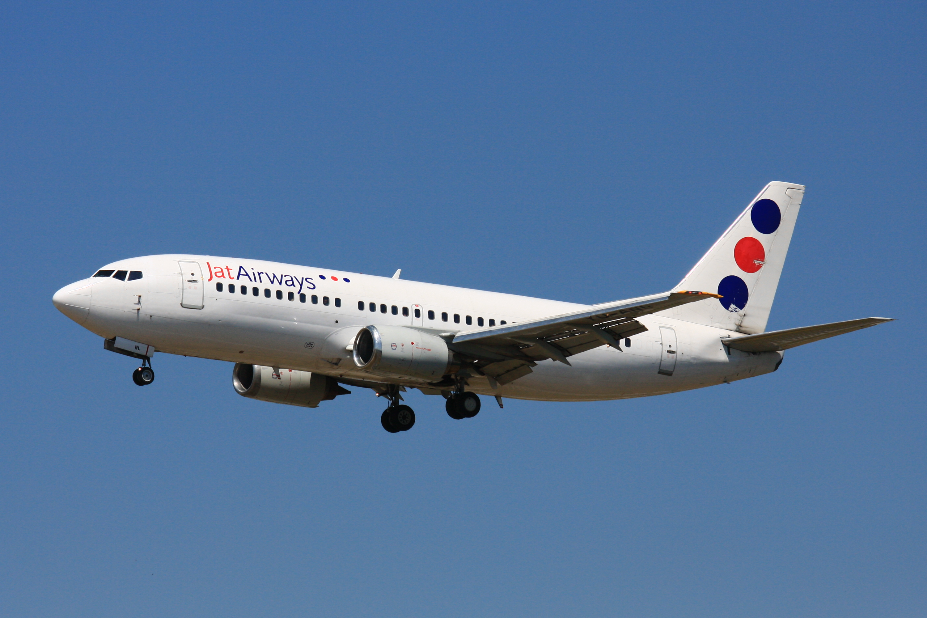 A Boeing 737-300 of Jat Airways landing at Frankfurt Airport